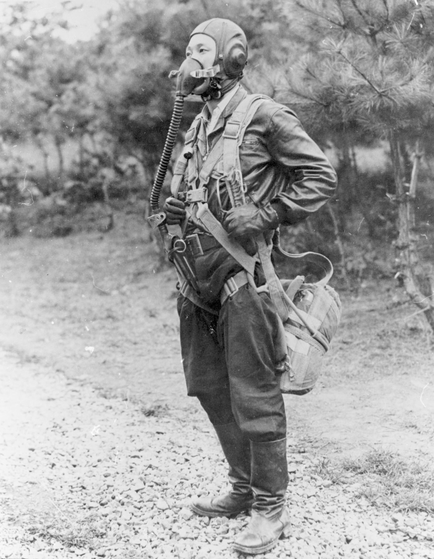 No Kum-sok, 1953